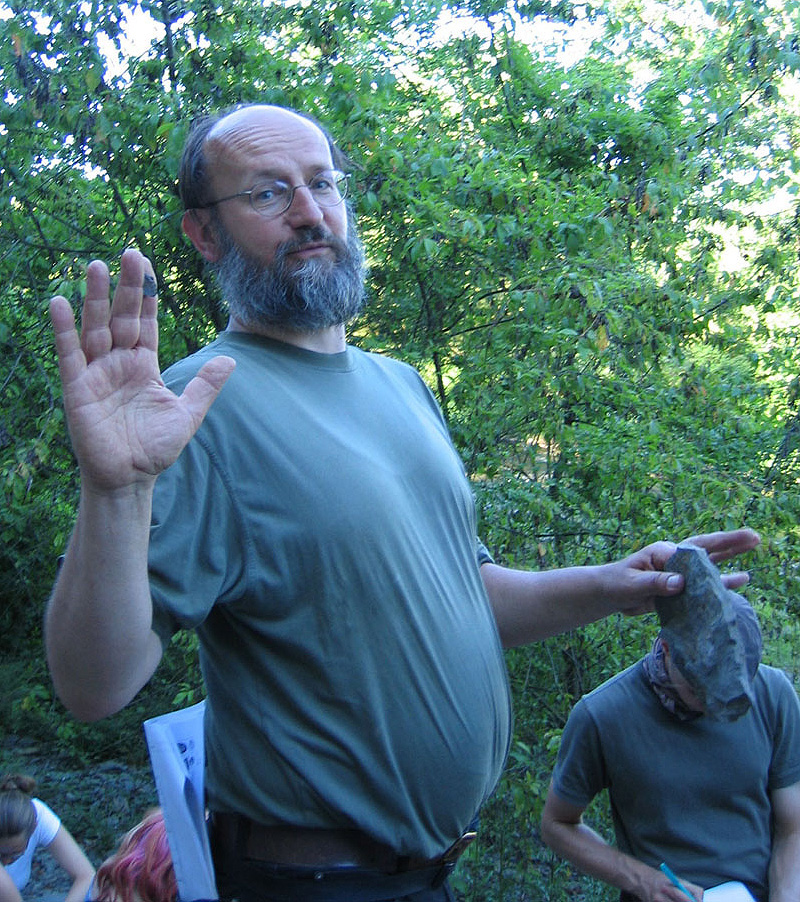 The German Micropaleontologist Michael Schudack (Freie Universität Berlin) with students on a field trip